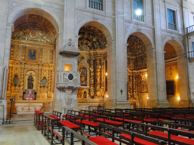 Cathedral of Salvador